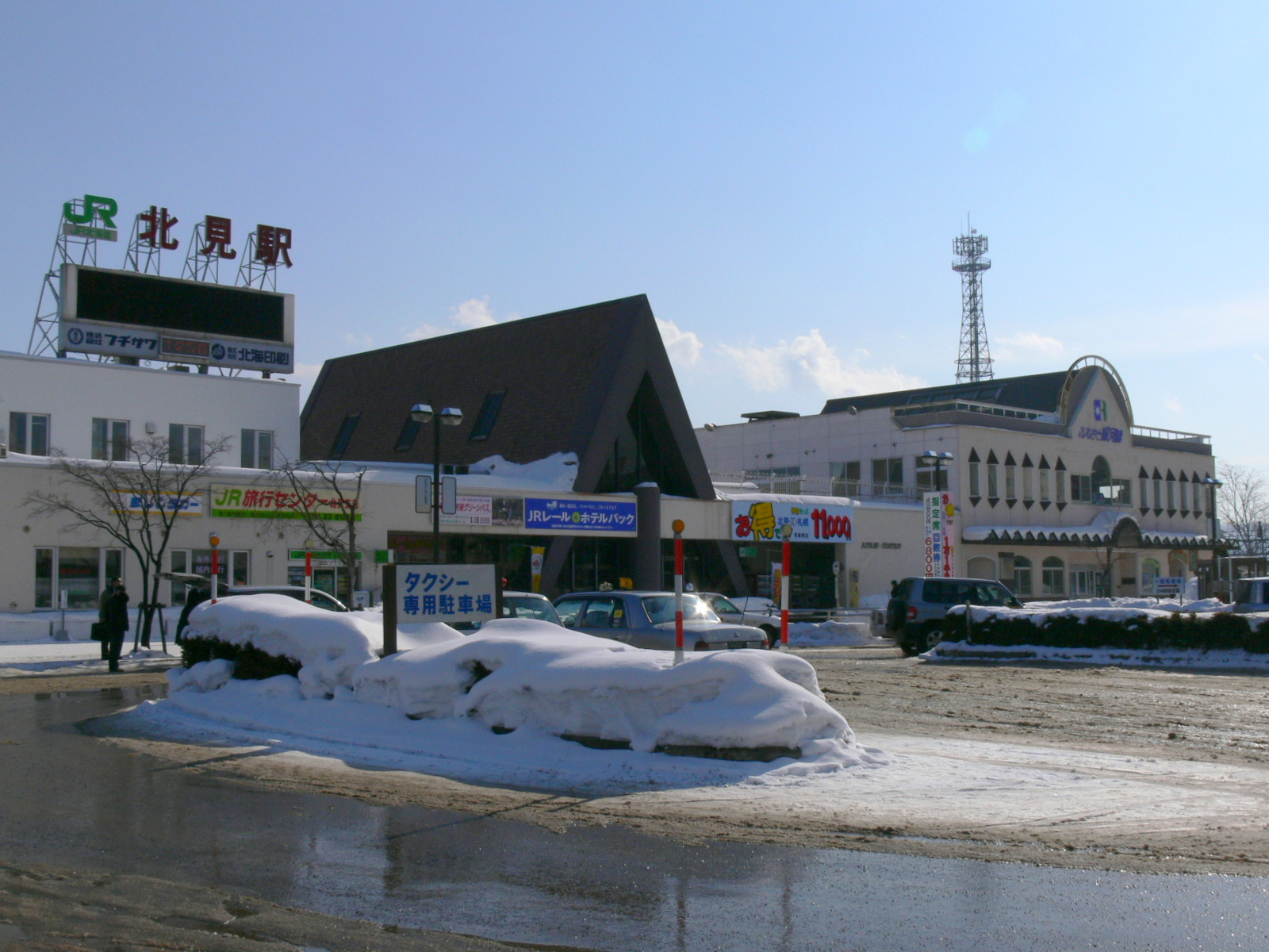 JR Hokkaido Kitami Station and Hokkaido Chihokukogen Railway building